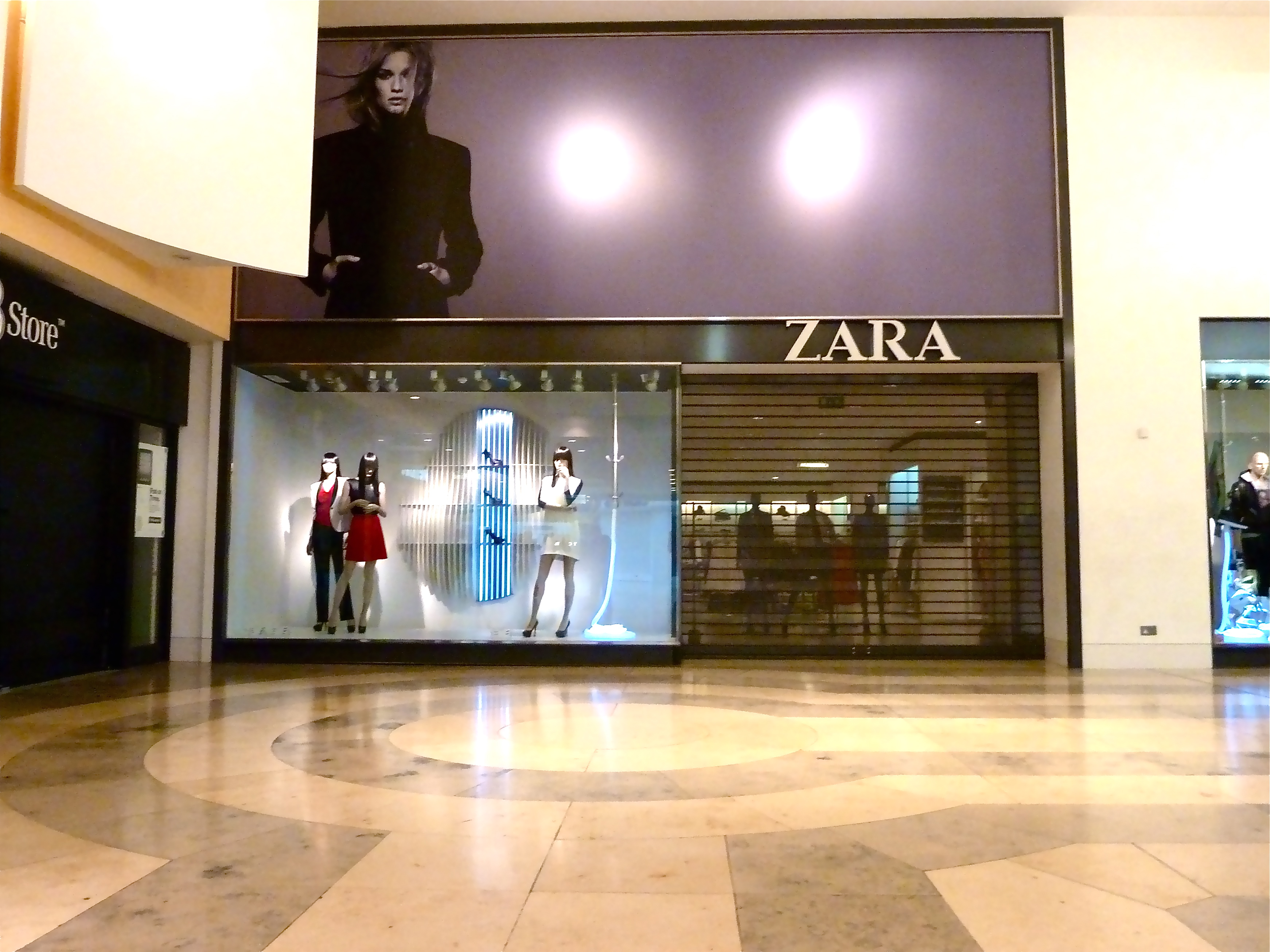 Zara in Oxford